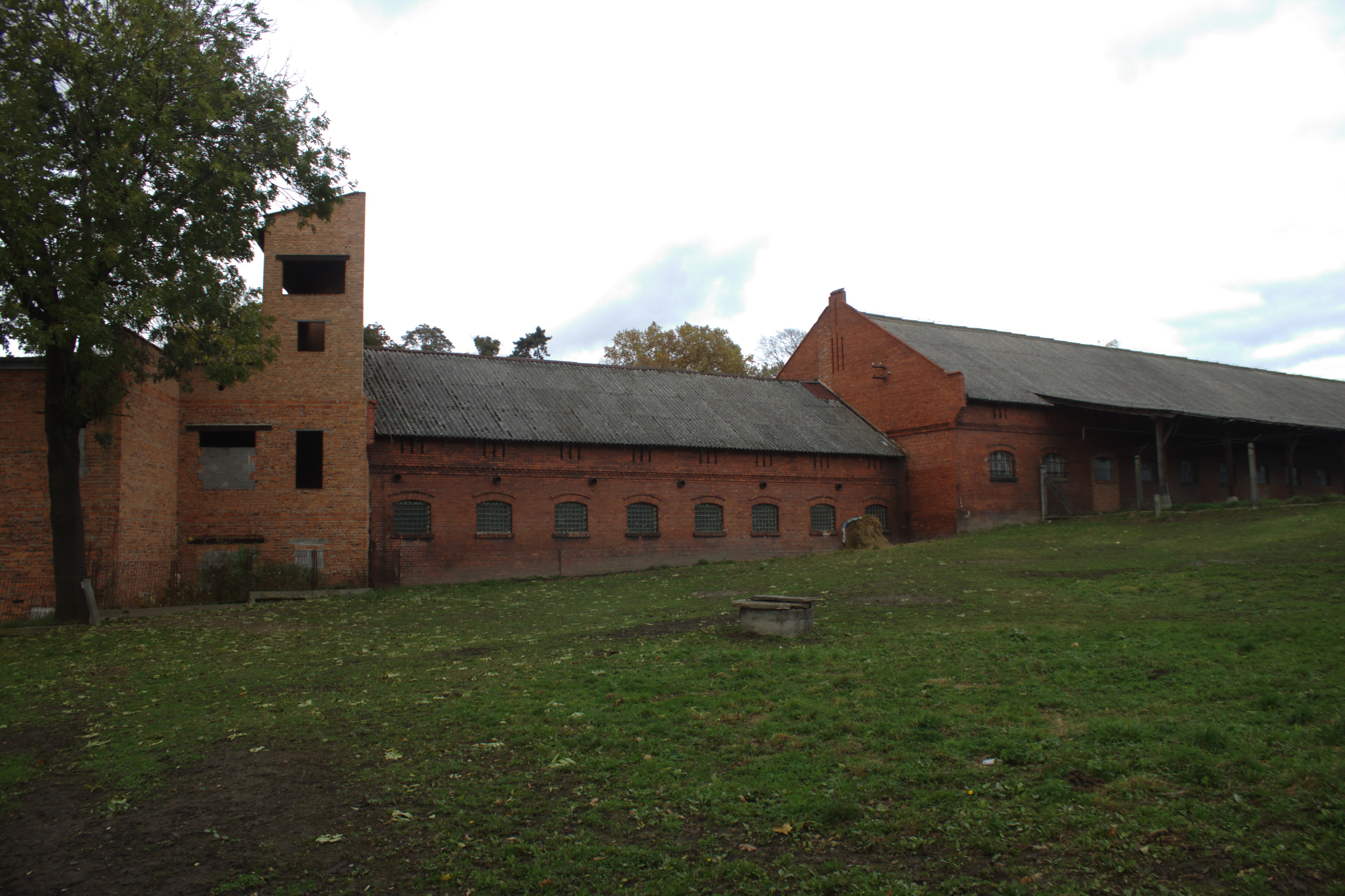 An agricultural/industrial facility in Szonowice, Poland